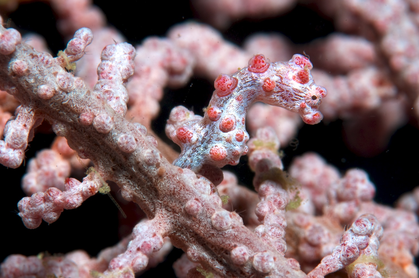 Pygmy Sea Horse on gorgonian fan.